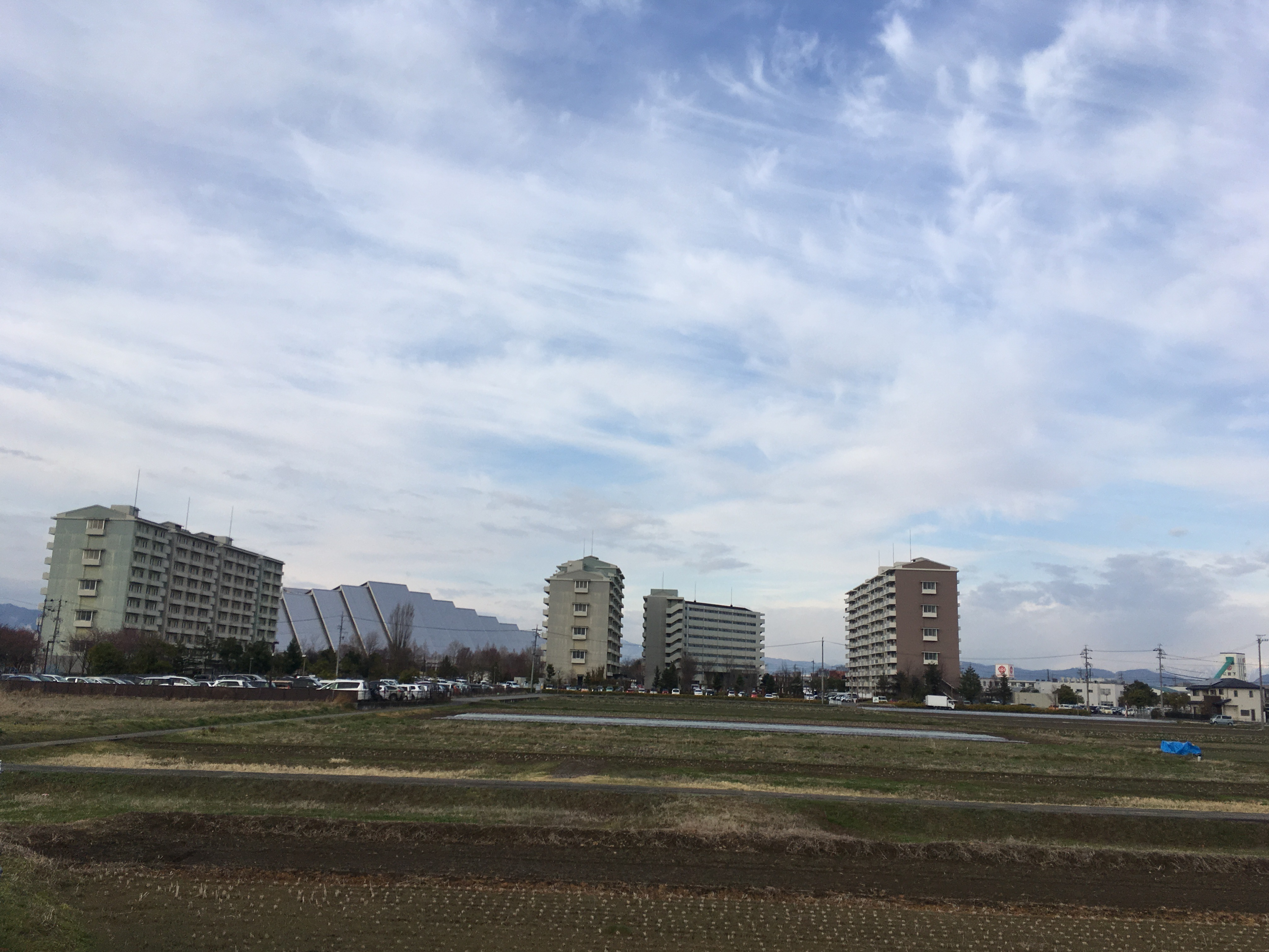 This is a photo of M-Wave with the four-storey apartment complex that served as the Media Village during the 1998 Winter Olympics.